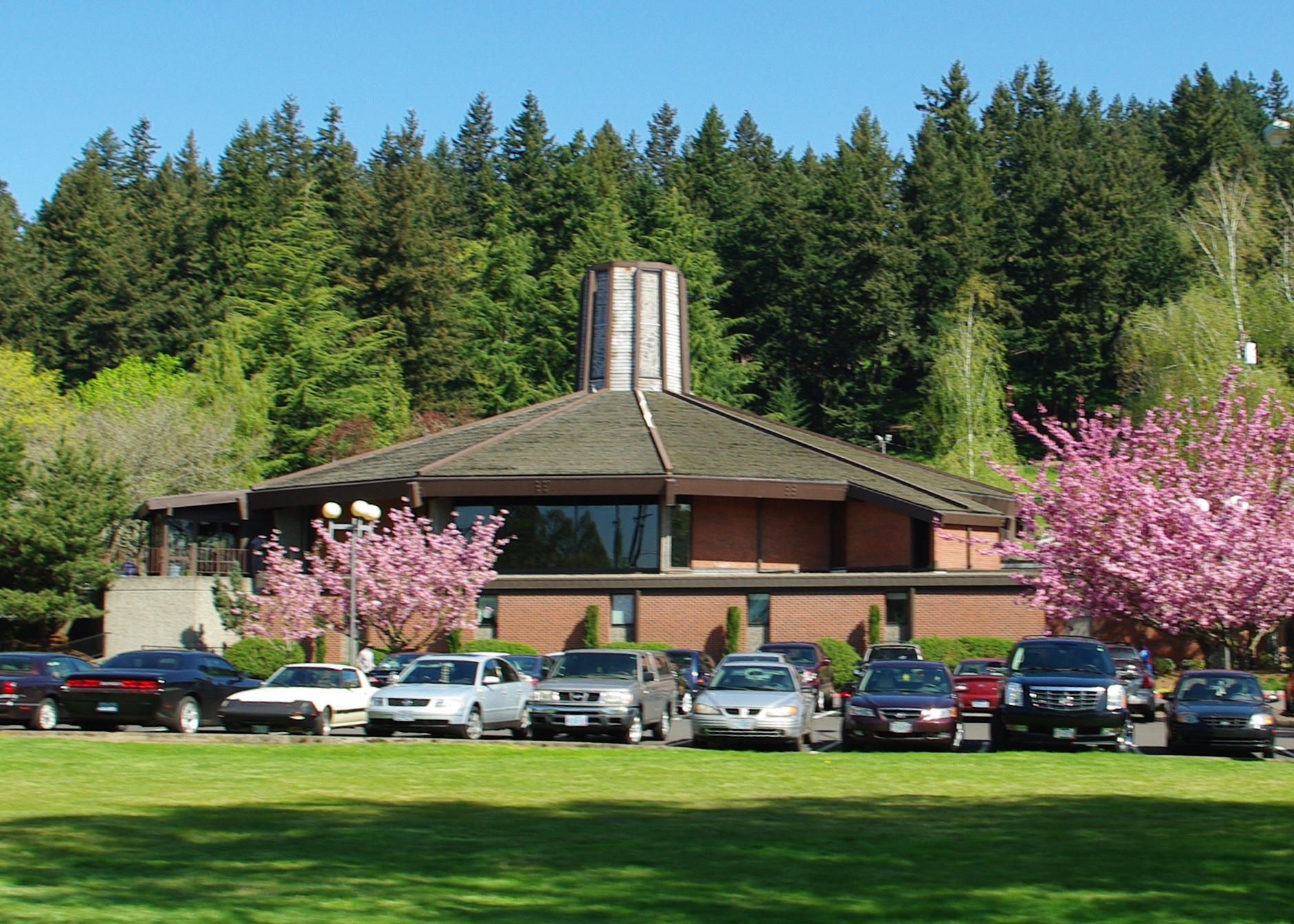 McGuire Auditorium at Warner Pacific College in Portland, Oregon